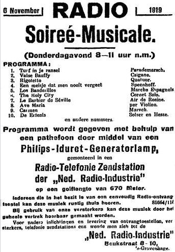 1919 newspaper advert announcing Hanso à Steringa Idzerda's Radio Soireé-Musicale.